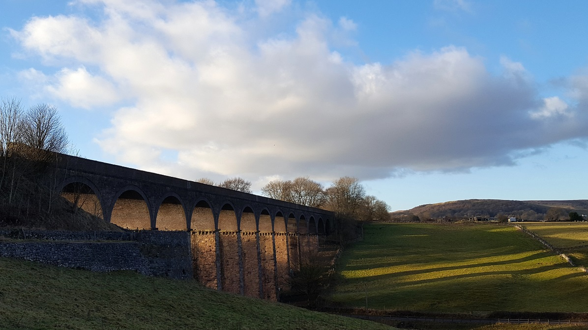 Railway Viaduct from Staden Low near Buxton